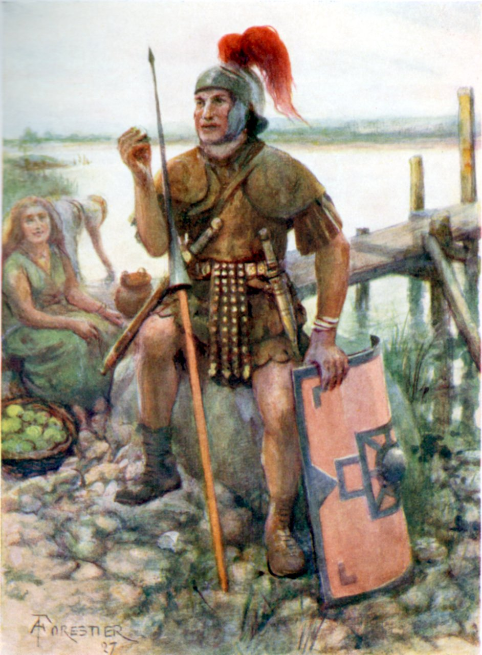 An auxiliary at a ferry on the Tyne. An abundance of leather distinguishes the equipment of this auxiliary, waiting for the ferry, from that of the legionary, but the pilum with which he is armed is essentially the legionary's weapon. His pectoral is of leather, an Iberic sword hangs from his left shoulder, and apron belt is worn over short leather breeches, and the rectangular scutum has re-appeared. This figure is based on the tombstone of C. Valerius Crispus from Mainz, a legionary of legio VIII Augusta. It was also the inspiration used by Ludwig Lindenschmit for his soldier model in the RGZM in Mainz. Like Lindenschmit, and follwoing Couissin, Forestier interpreted Crispus' armour as being made of leather (rather than mail as is now thought more likely). Amédée Forestier, 1927 NB: Original artwork by Amédée Forestier (1854-1930)